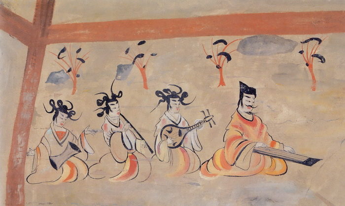 Period from end of Sixteen Kingdoms to Northern Wei (384-441 A.D.) image from the tomb of Lord Yanju. Shows musicians playing (from left) waist drum (细腰鼓), flute (长笛), lute (阮咸琵琶), and guqin (古琴). On Wikipedia, this image was originally represented as being from the Sixteen Kingdoms period; however nothing online supports this, as of September 24, 2018. All the copies I have found of this particular version of the image (cleaned up, unlike the other version below) originated with Wikipedia. Wikipedia appears to be the source of this clean copy online, as well as any information dating it to the Sixteen Kingdoms period (304-439 A.D.).